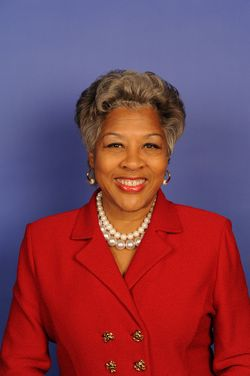 Official portrait of Congresswoman Joyce Beatty (D-OH).